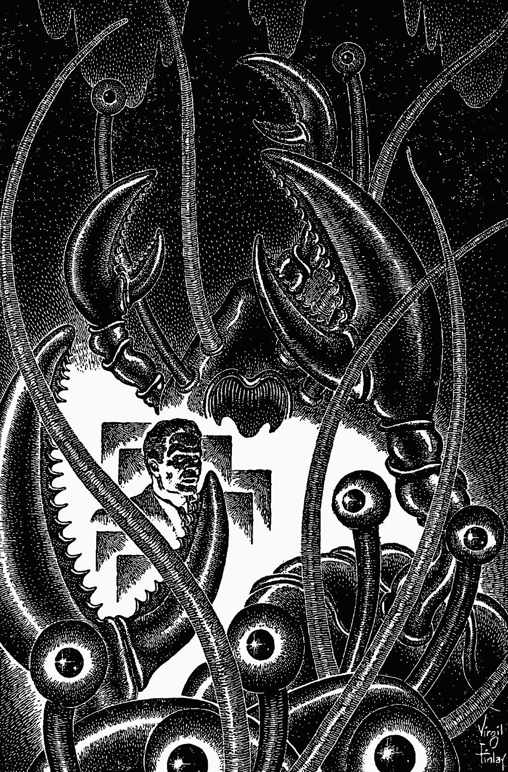 Ilustration by Virgil Finlay from H.G. Wells' novel "The Time Machine", published in the magazine Famous Fantastic Mysteries; August 1950. Orginal caption / Oryginalny podpis